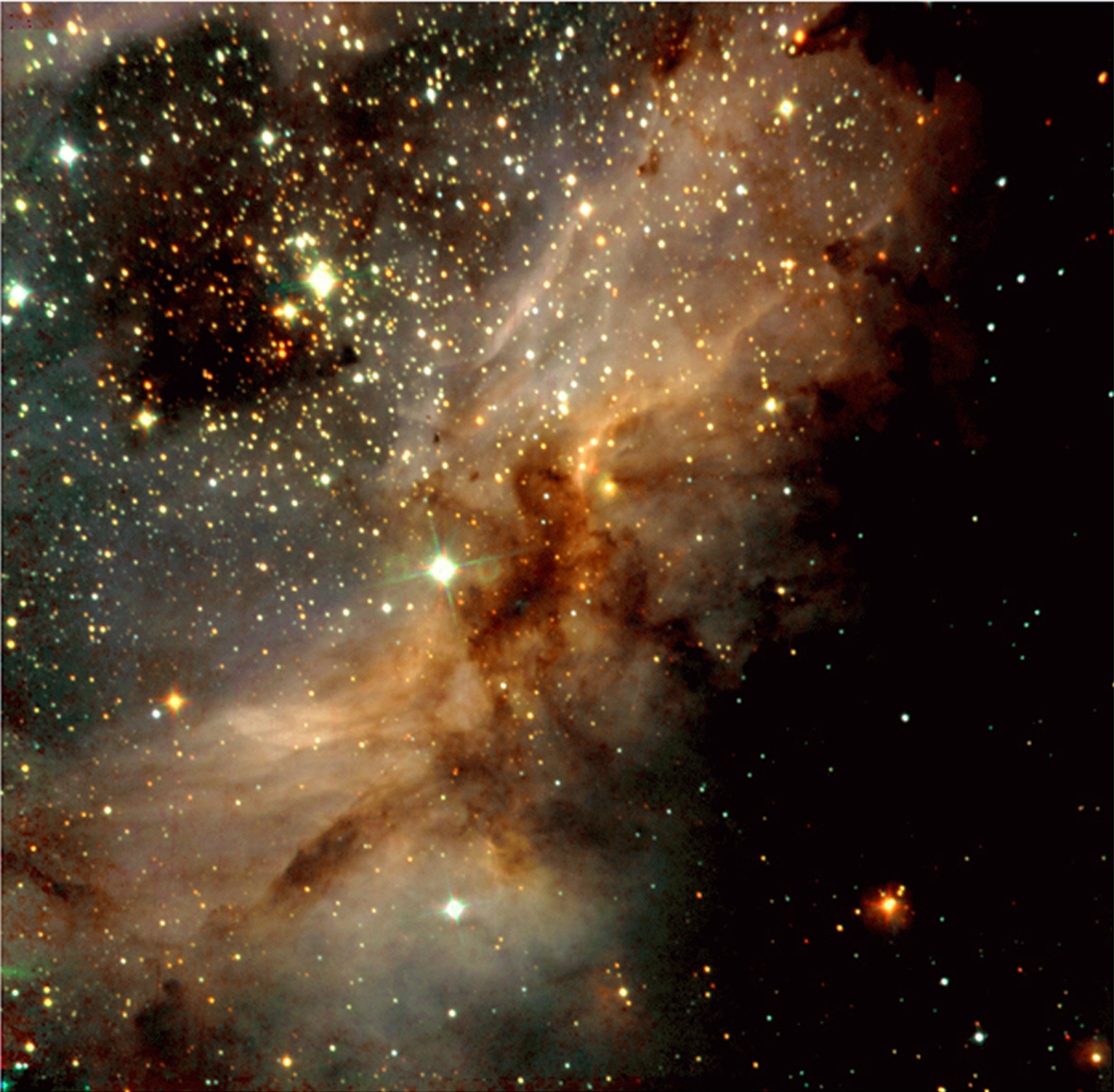 This image is a near-infrared, colour-coded composite image of a sky field in the south-western part of the galactic star-forming region Messier 17 . It is based on exposures obtained on August 15, 2000, with the SOFI multi-mode instrument at the ESO 3.6-m New Technology Telescope (NTT) at La Silla. In this image, young and heavily obscured stars are recognized by their red colour. Bluer objects are either foreground stars or well-developed massive stars whose intense light ionizes the hydrogen in this region. The diffuse light that is visible nearly everywhere in the photo is due to emission from hydrogen atoms that have (re-)combined from protons and electrons. The dark areas are due to obscuration of the light from background objects by large amounts of dust - this effect also causes many of those stars to appear quite red. A cluster of young stars in the upper-left part of the photo, so deeply embedded in the nebula that it is invisible in optical light, is well visible in this infrared image. Technical information : The exposures were made through three filtres, J (at wavelength 1.25 µm; exposure time 5 min; here rendered as blue), H (1.65 µm; 5 min; green) and Ks (2.2 µm; 5 min; red); an additional 15 min was spent on separate sky frames. The seeing was 0.5 - 0.6 arcsec. The objects in the uppermost left corner area appear somewhat elongated because of a colour-dependent aberration introduced at the edge by the large-field optics. The sky field shown measures approx. 5 x 5 arcmin 2 (corresponding to about 3% of the full moon). North is up and East is left.